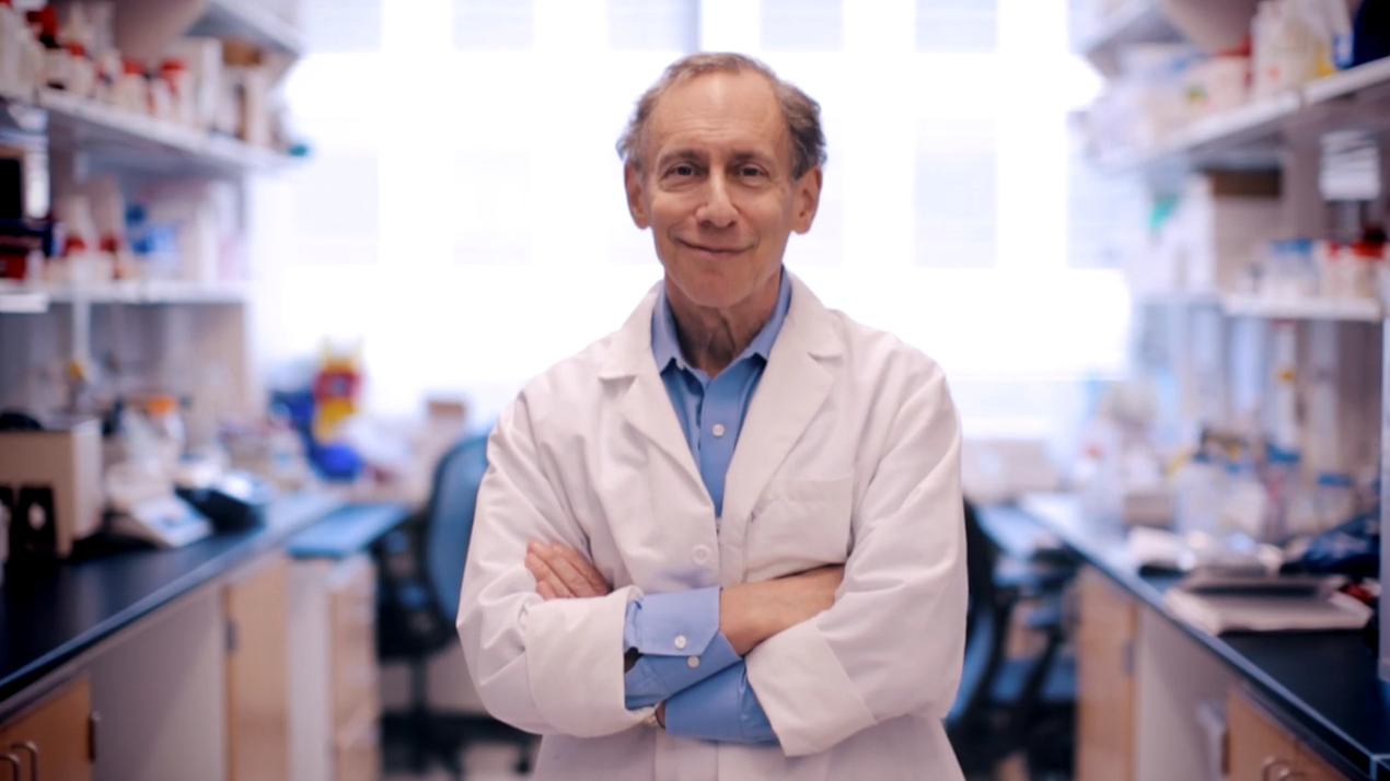 Photograph of Robert S. Langer, chemist, in the laboratory. The image is from a video about him and his work, entitledRobert Langer BioTech Awards Video.